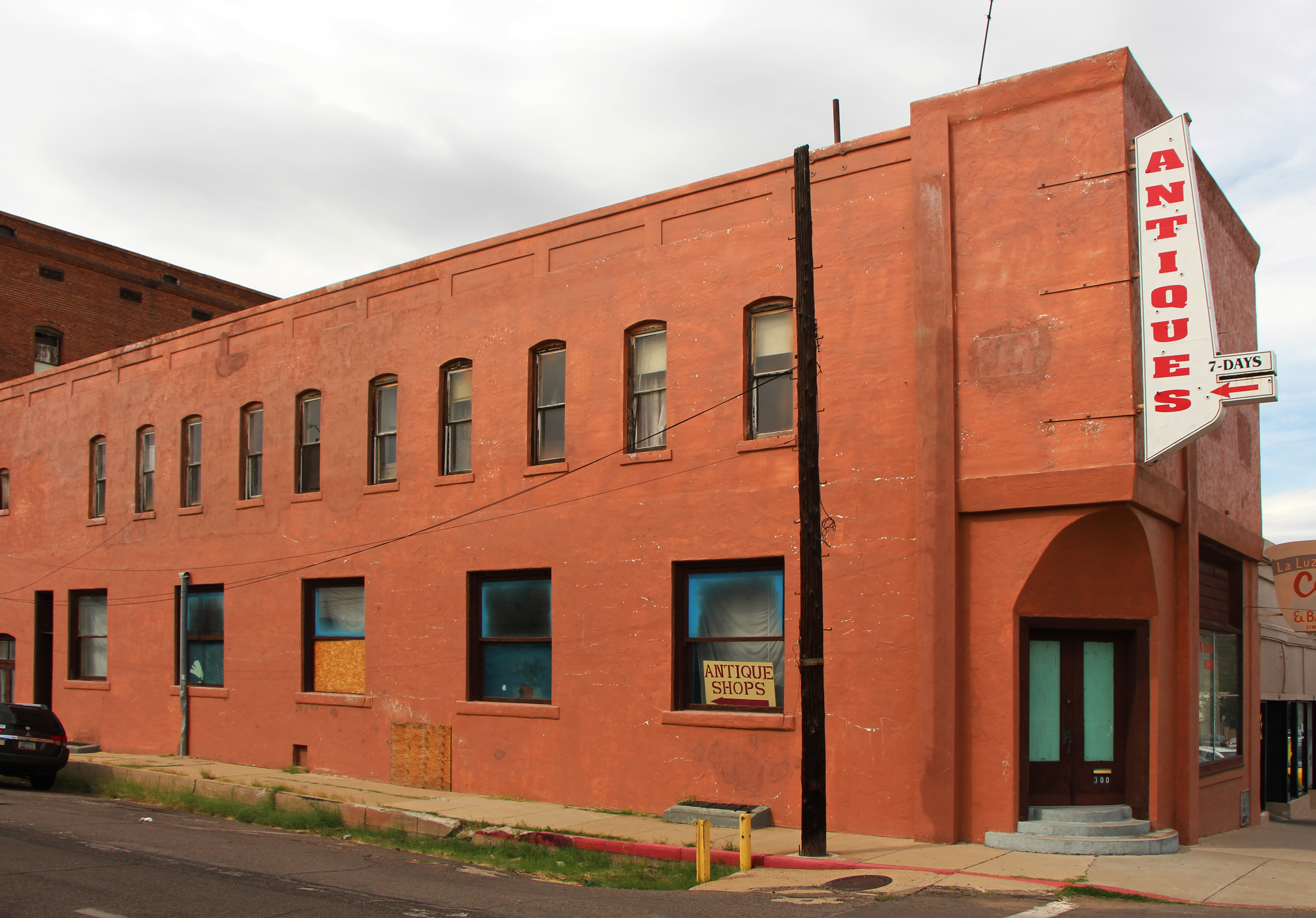 Butler Building, northwest corner of Mesquite and Broad, Globe, AZ